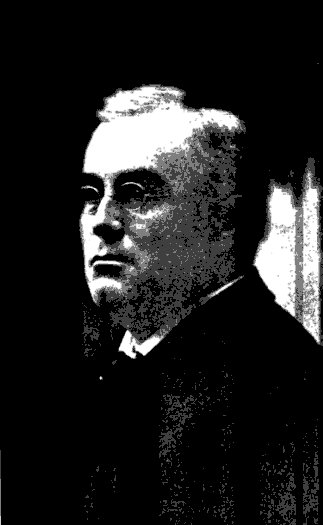 Photograph of Samuel T. Wellman, notable steel industry pioneer